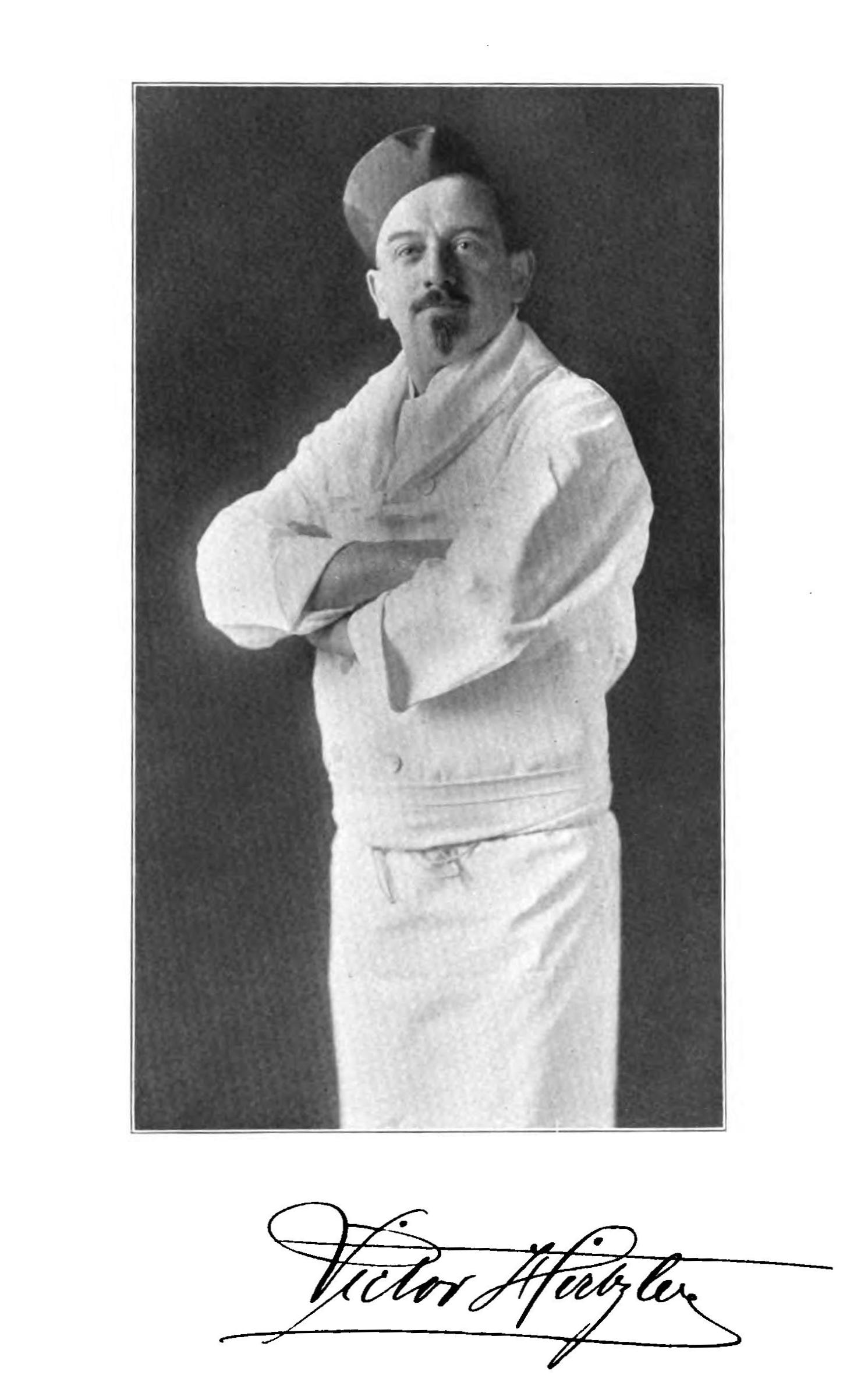 Lithograph of Victor Hirtzler (1919)